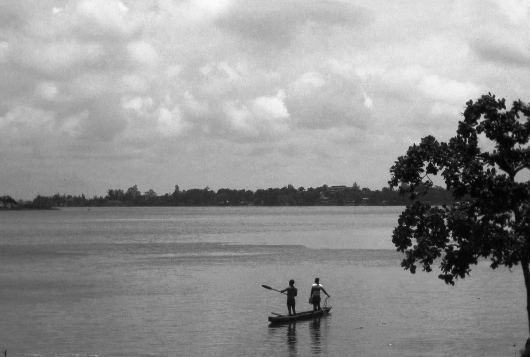 Ébrié Lagoon, with boaters, in Abidjan, Côte d'Ivoire.